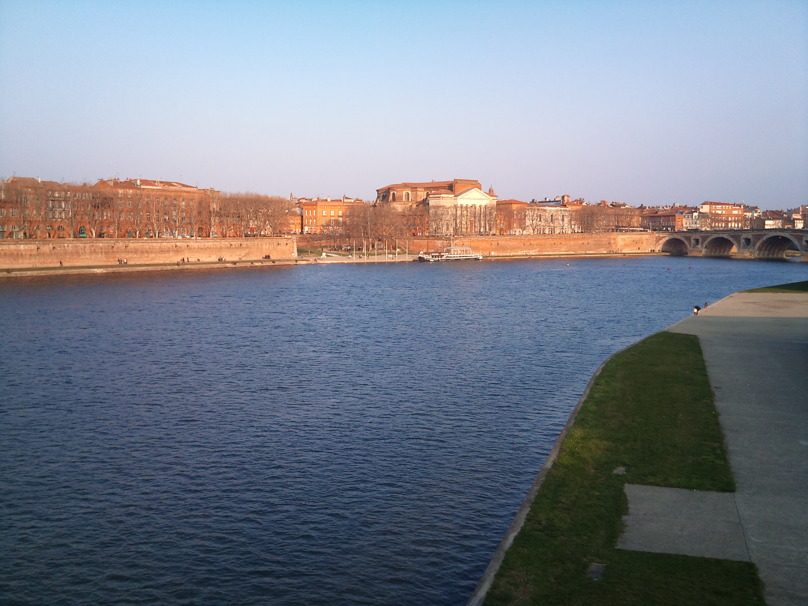 The Garonne river in Toulouse, photo taken from the bridge Saint-Pierre. On the right side the bridge Pont-Neuf is visible and in center the quai of la Daurade and the basilica Notre-Dame de la Daurade.